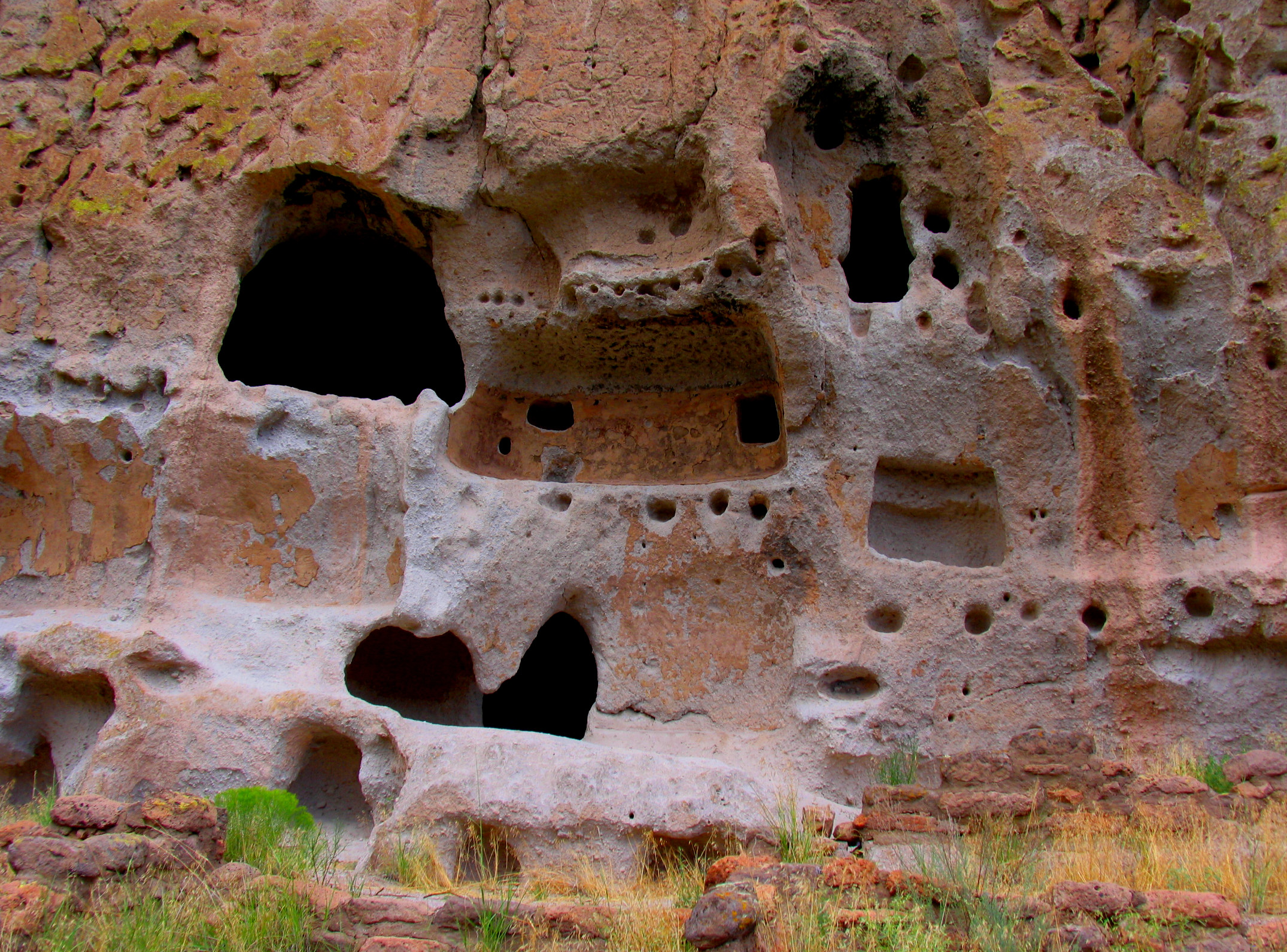 Bandelier, New Mexico, USAcliff dwellings